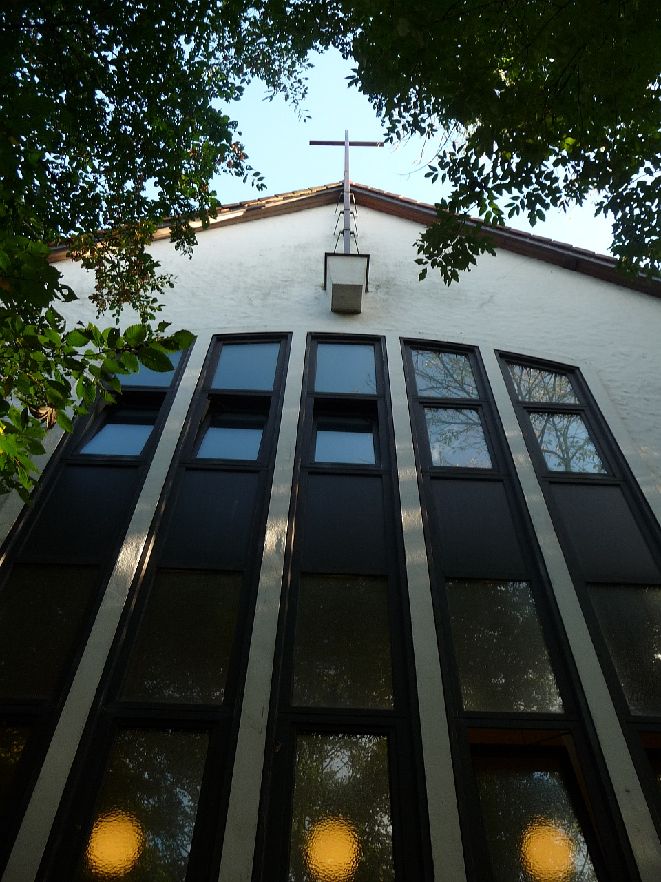 Kreuzgemeinde in Bremen-Schwachhausen-Barkhof Evangelical-Free Church (Baptists)